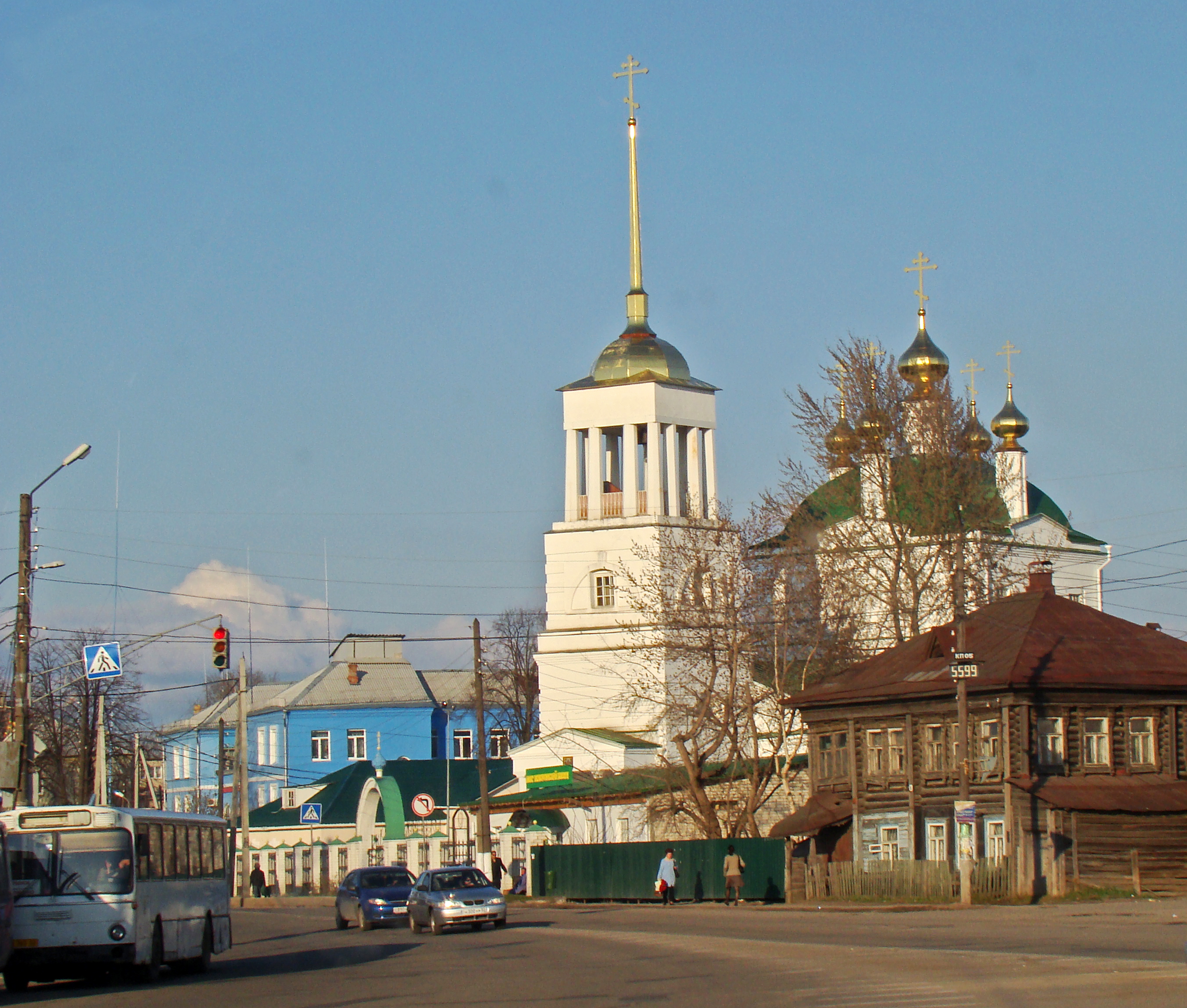 Bor, Nizhny Novgorod Oblast. View to Uspenskaya Church.